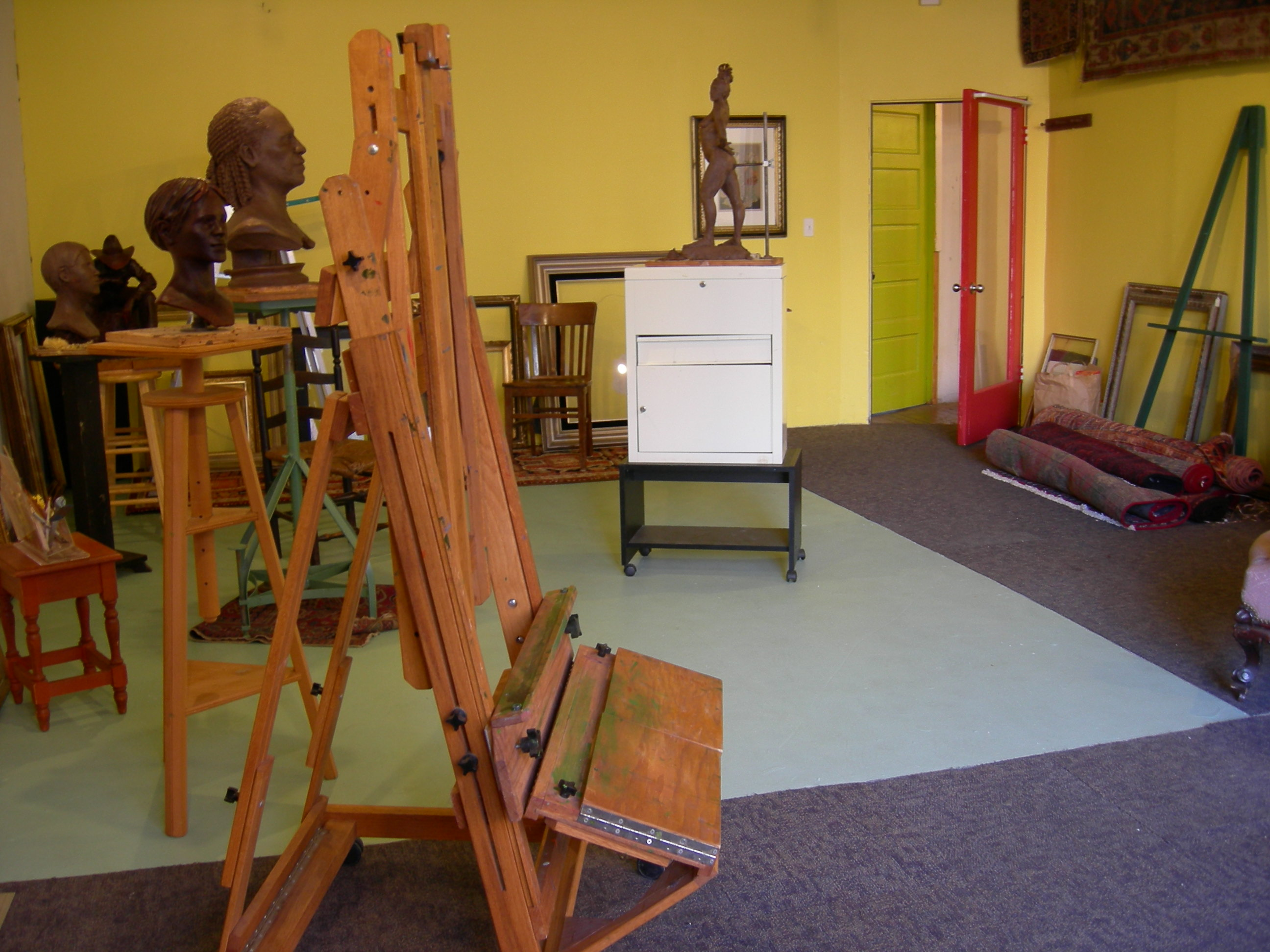 =Sculptor's studio. 619 Western Avenue, in Seattle's Pioneer Square neighborhood, is a building containing mainly artist studios and small, artist-owned gallery spaces. First Thursday, September 2006. First Thursday (the oldest "art walk" in Seattle)is the traditional evening for gallery openings in the Pioneer Square neighborhood, and for artists in the neighborhood to open their studios to the general public. This photo is of a sculptor's studio, used by permission. The building is a somewhat loosely run collective of artists. First Thursdays at the 619 building are crowded. Music flows through each floor, and visitors are invited to explore the individual artist's studios as well as the gallery exhibitions. Both established and emerging artists work in the building, and many artists are brought in from around the country to exhibit at the various galleries. The building houses painters, sculptors, jewelers, clothing designers, and photographers, mixed media artists, and furniture artisans, as well as many other disciplines. The building also houses two non-profit groups. The Tibetan Nuns Project and ArtWorks, which empowers young artists. Both non-profits have websites.